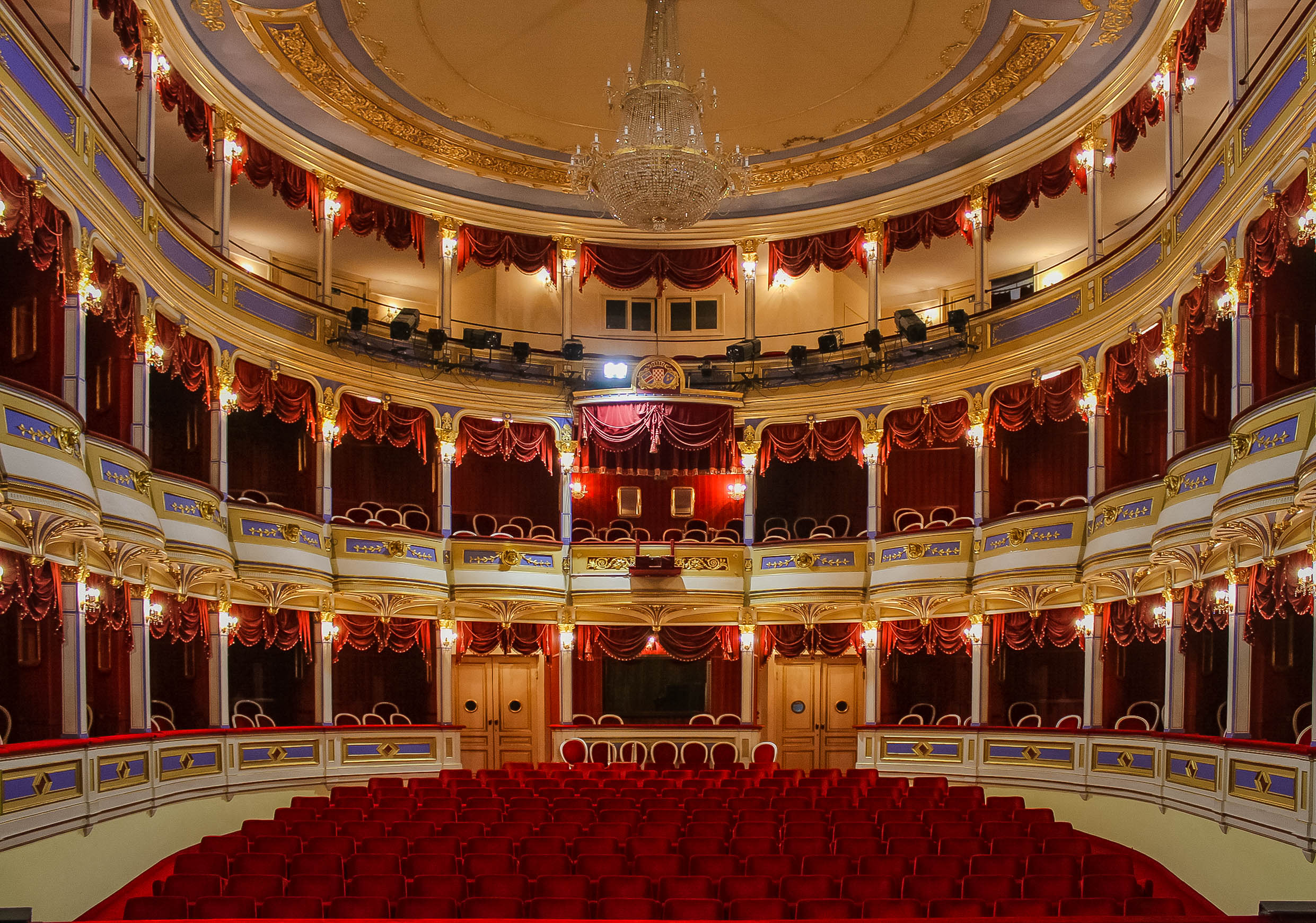 Theatre